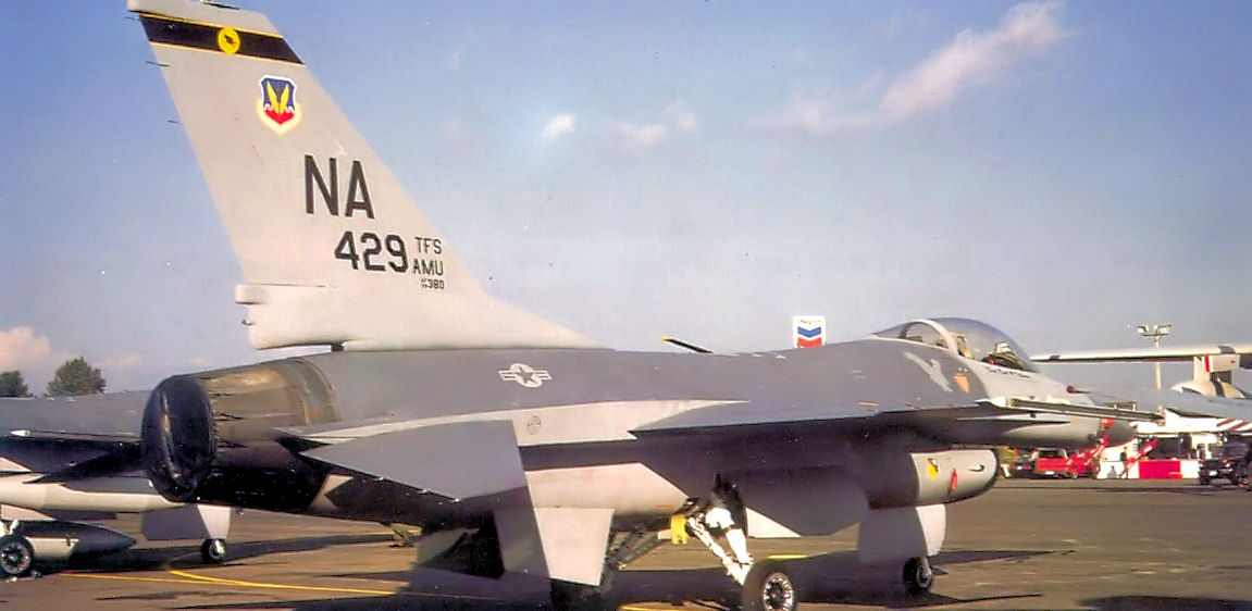 429th Tactical Fighter Squadron - General Dynamics F-16A Block 10A Fighting Falcon 79-0380, Nellis AFB